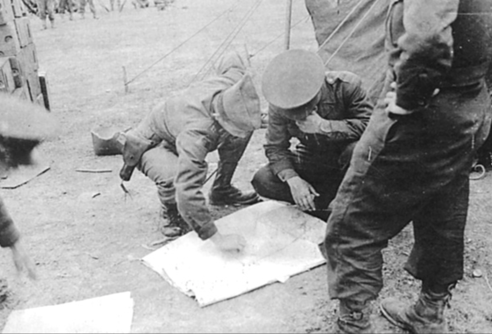 US and Jeju